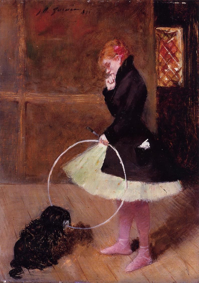 Jean-Louis Forain's art